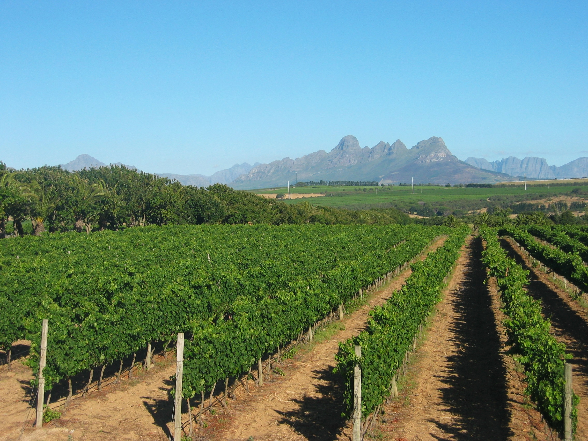 Vineyards on Meerlust estate, just outside Stellenbosch. This media shows a South African Protected Site with SAHRA file reference 9/2/084/0171.